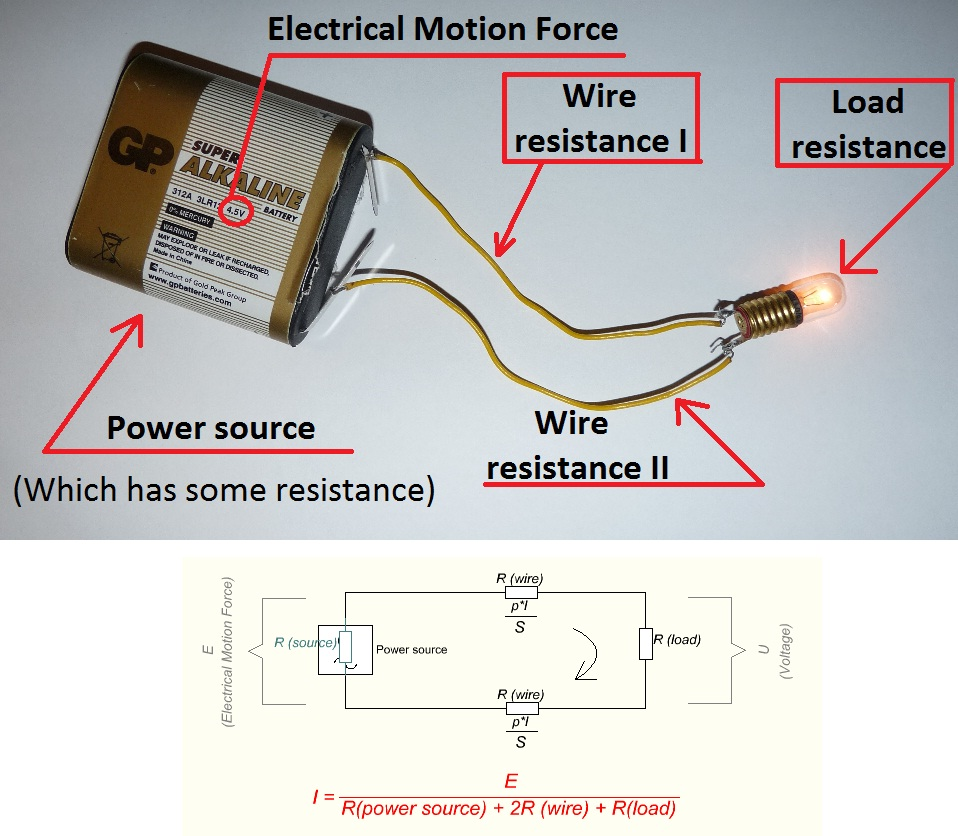 Ohm's law for full circuit with real example.